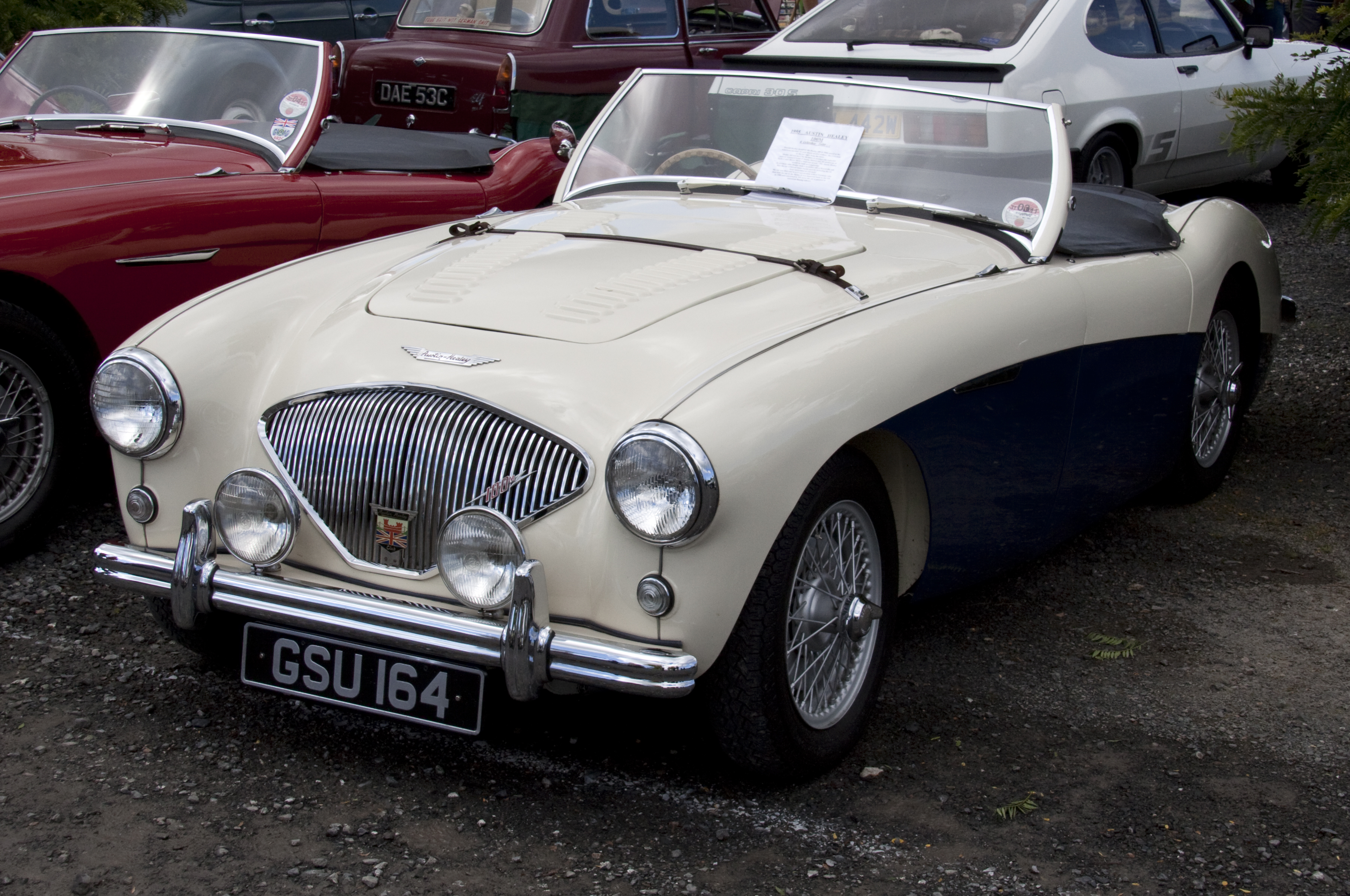 Austin Healey 1955 100M 2